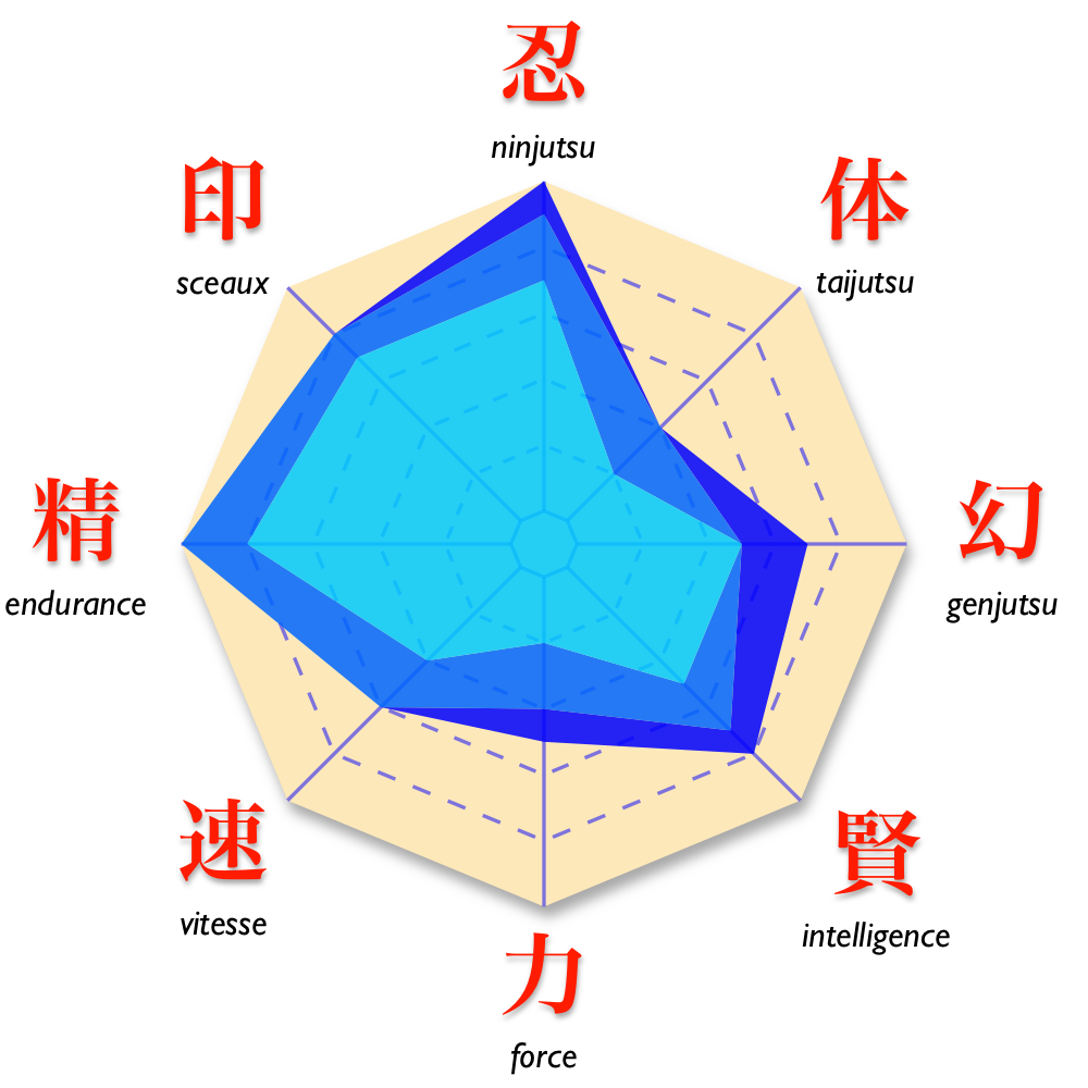 Naruto manga - Character "Gaara" - Capabilities evolution diagram from Official Databooks data